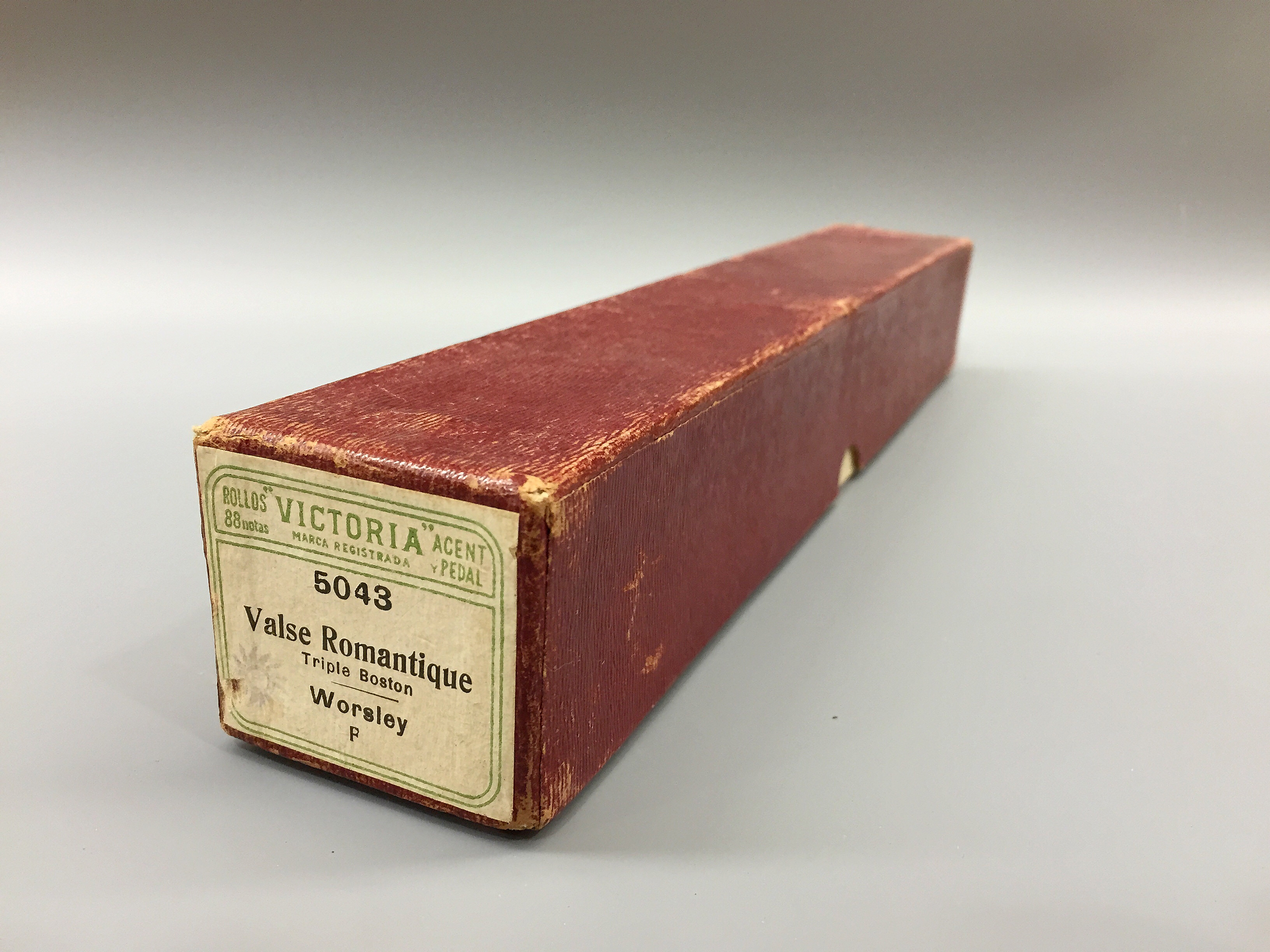 Vals romantique, Clifton Worsley, piano roll, Victoria